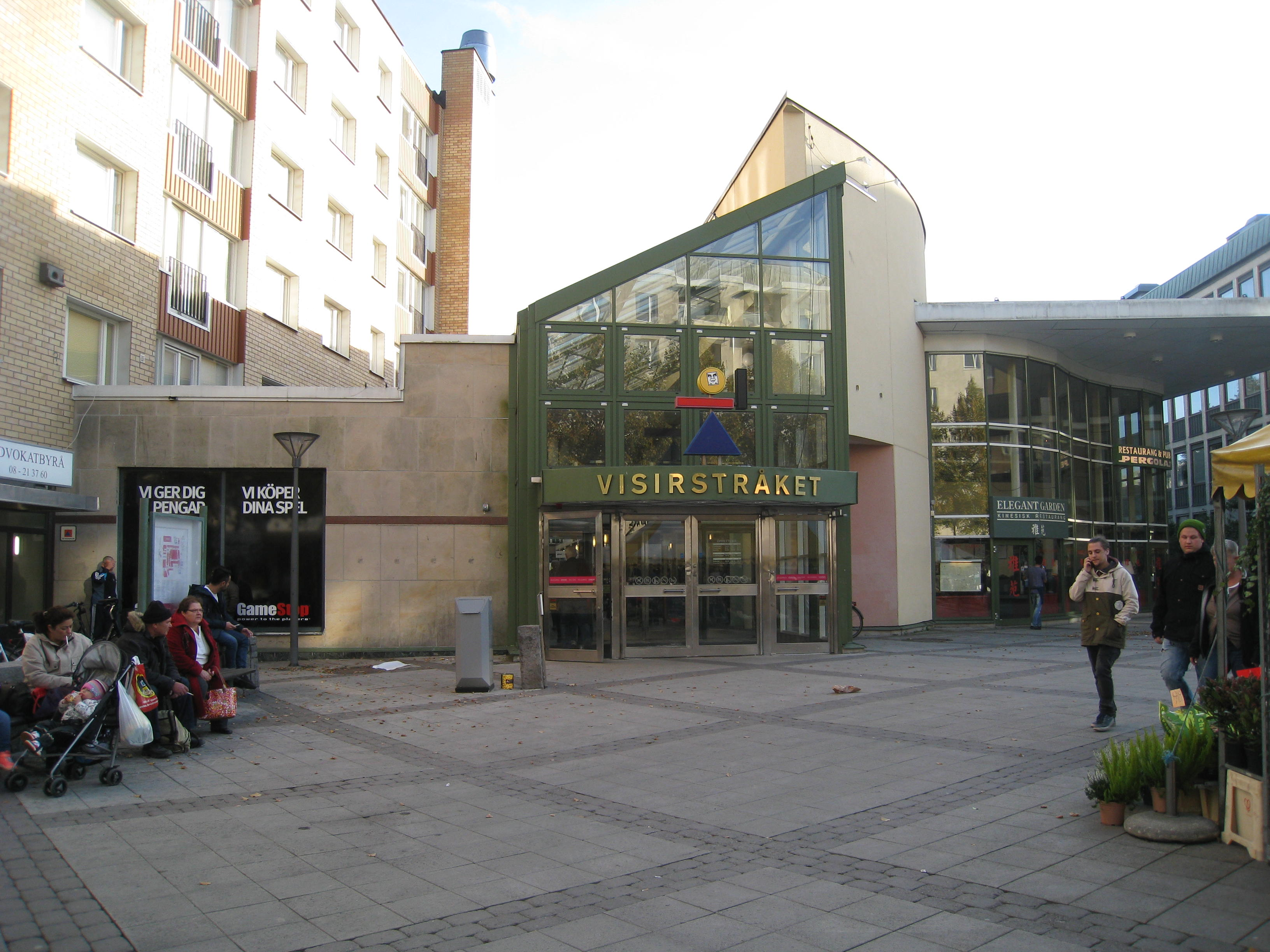 The centre of Jakobsberg, Järfälla, Stockholm County. The entry to Jakobsbergsgallerian at Visirstråket.